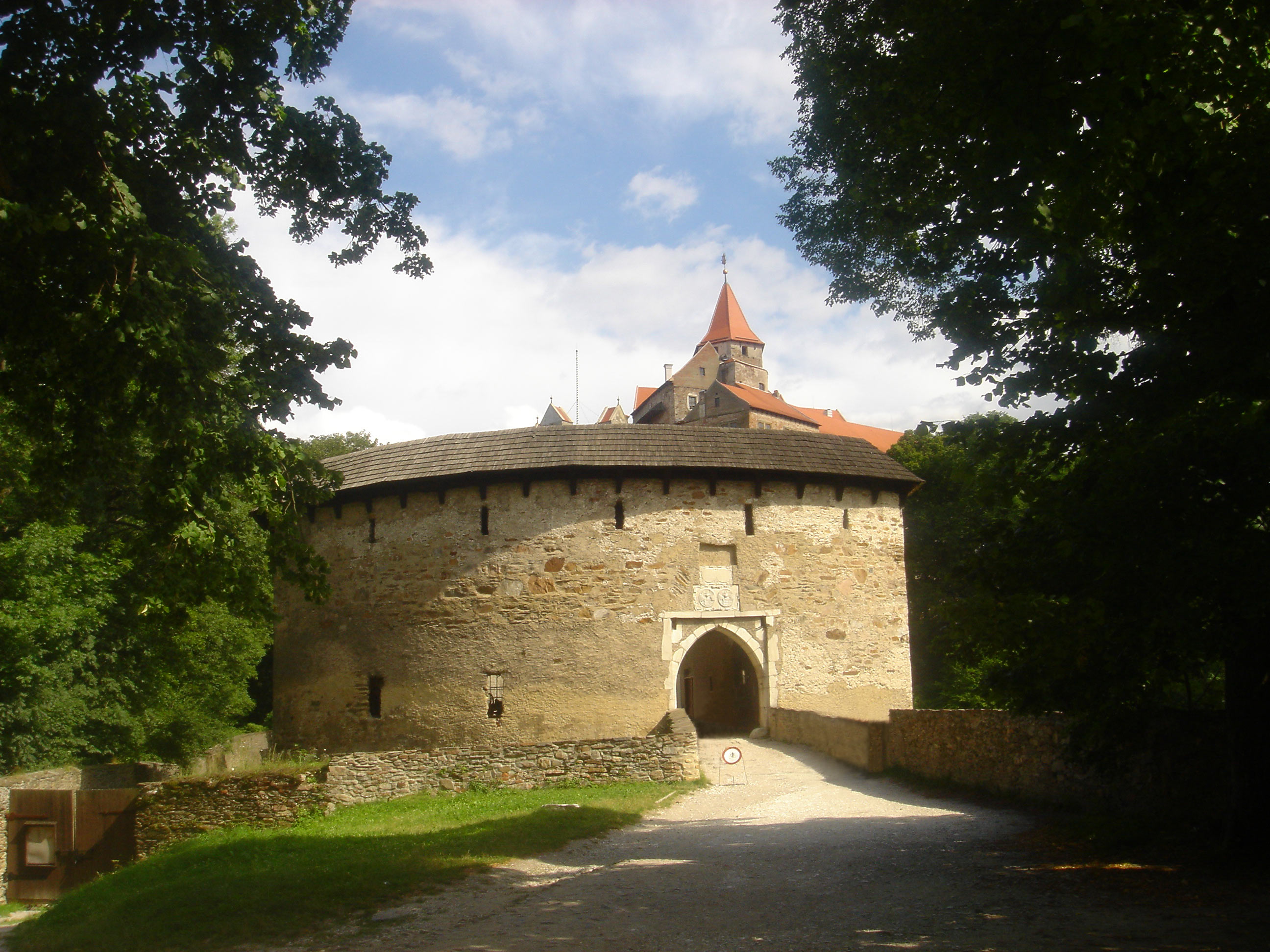 Castle Pernštejn (Czech Republic).